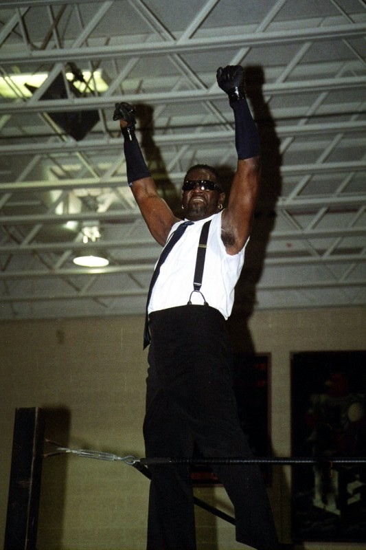 Wrestling legend Mr. Hughes on 3/28/09 from Franklin PA